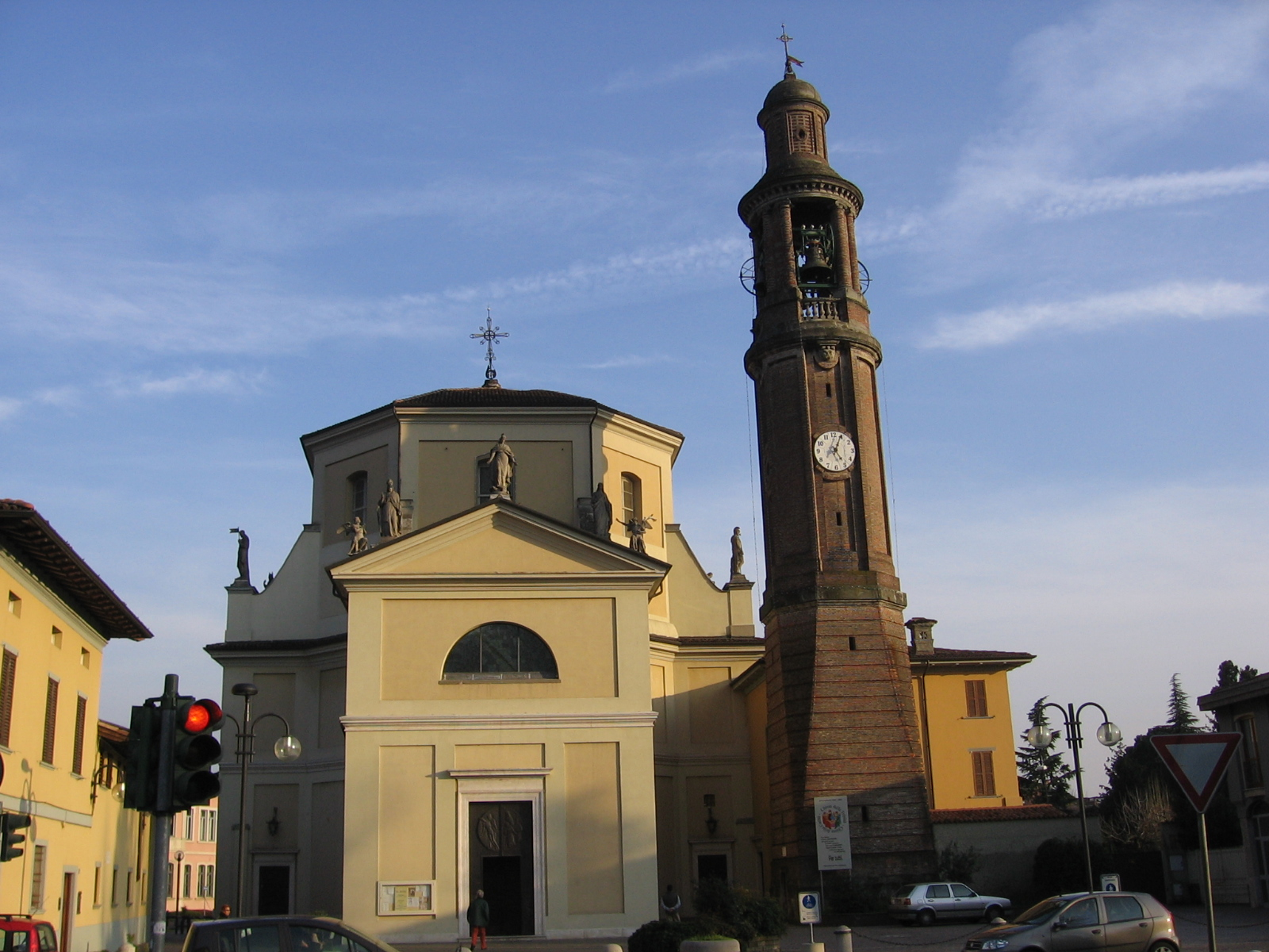 Torre Boldone, Bergamo, Italia